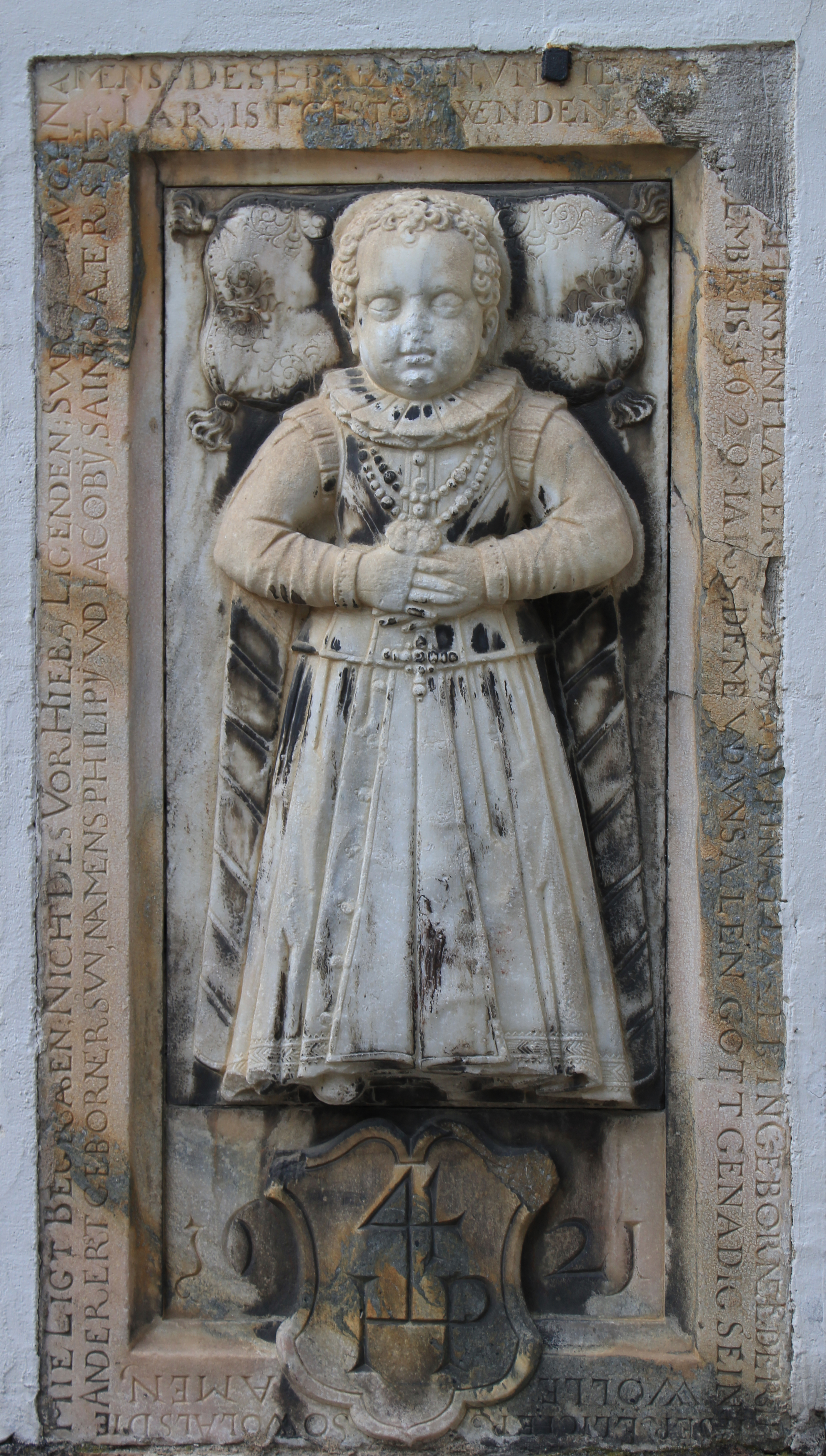 Parish church in Sankt Veit an der Glan - Epitaph